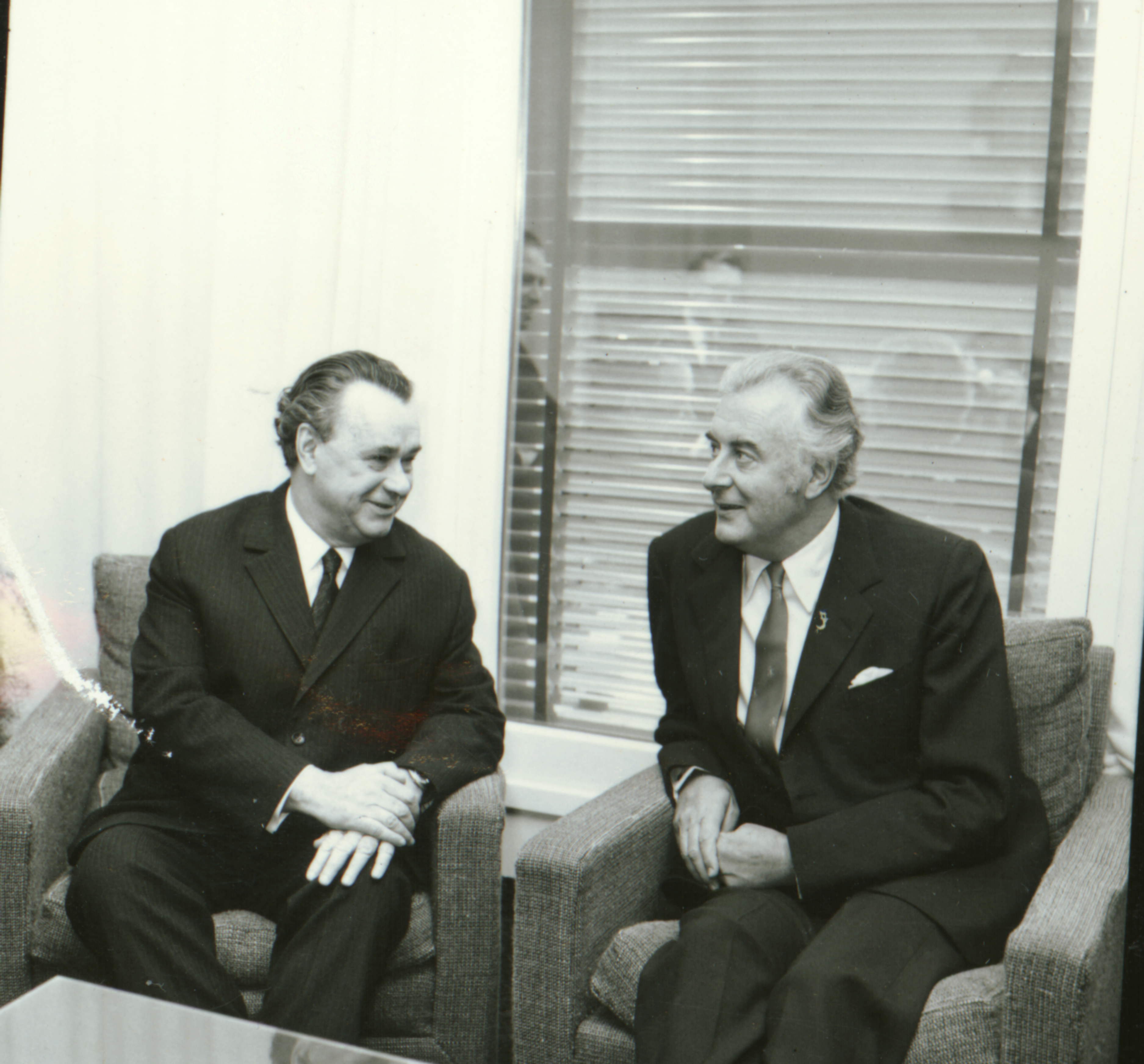 Australian Prime Minister Gough Whitlam meets Soviet Trade Minister Nikolai Patolichev on 22 March 1973 during his trip to Russia.